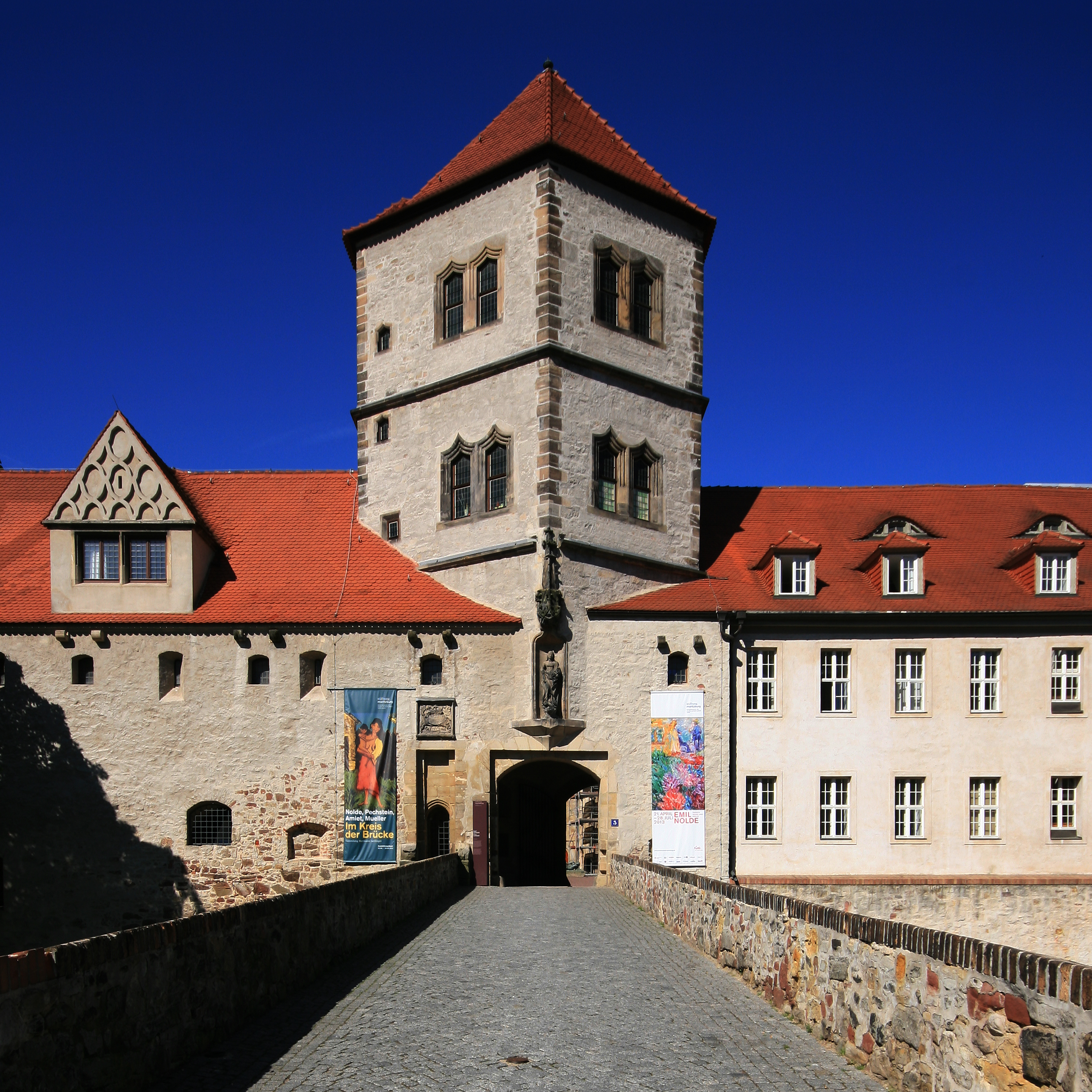 Moritzburg, Entrance to the Castle